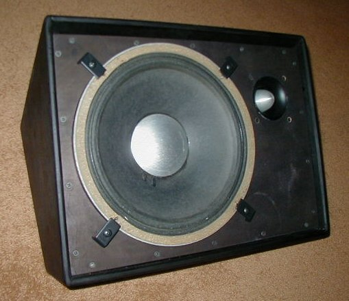 A JBL 12 inch woofer and 2402 "bullet" tweeter floor monitor Photo taken by Robert Harker (me), April 2008. Robert.harker (talk) 21:37, 8 May 2008 (UTC)